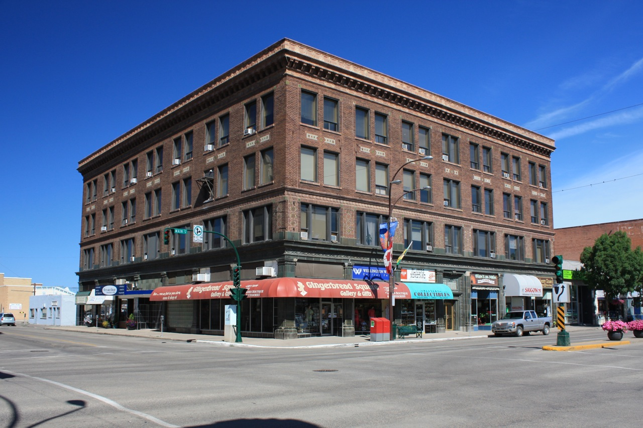 Hammond Building, 310 Main Street at Fairford Steet, Moose Jaw, Saskatchewan, Canada. Built 1912.